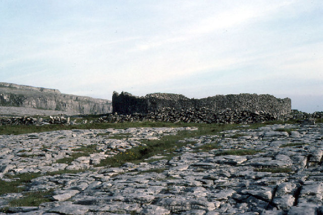 Cathair Dhuin Irghuis: a view from the northern side.